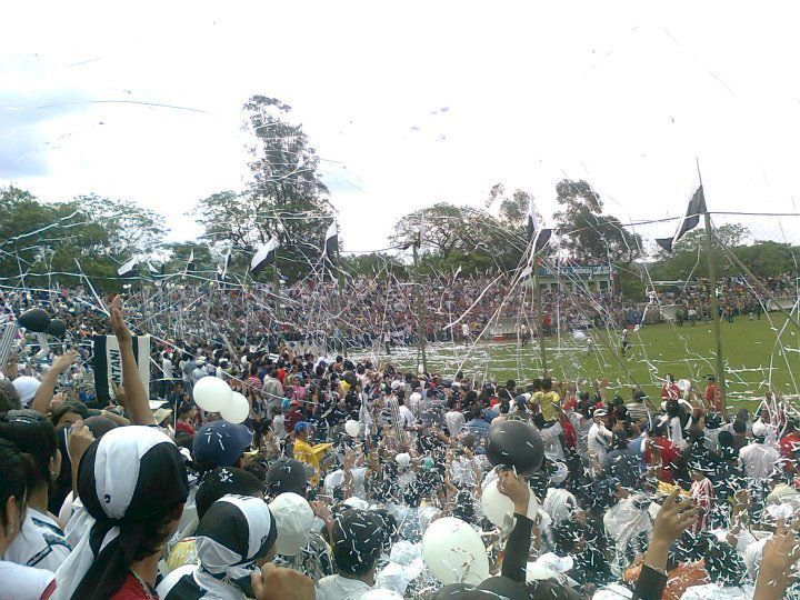 español